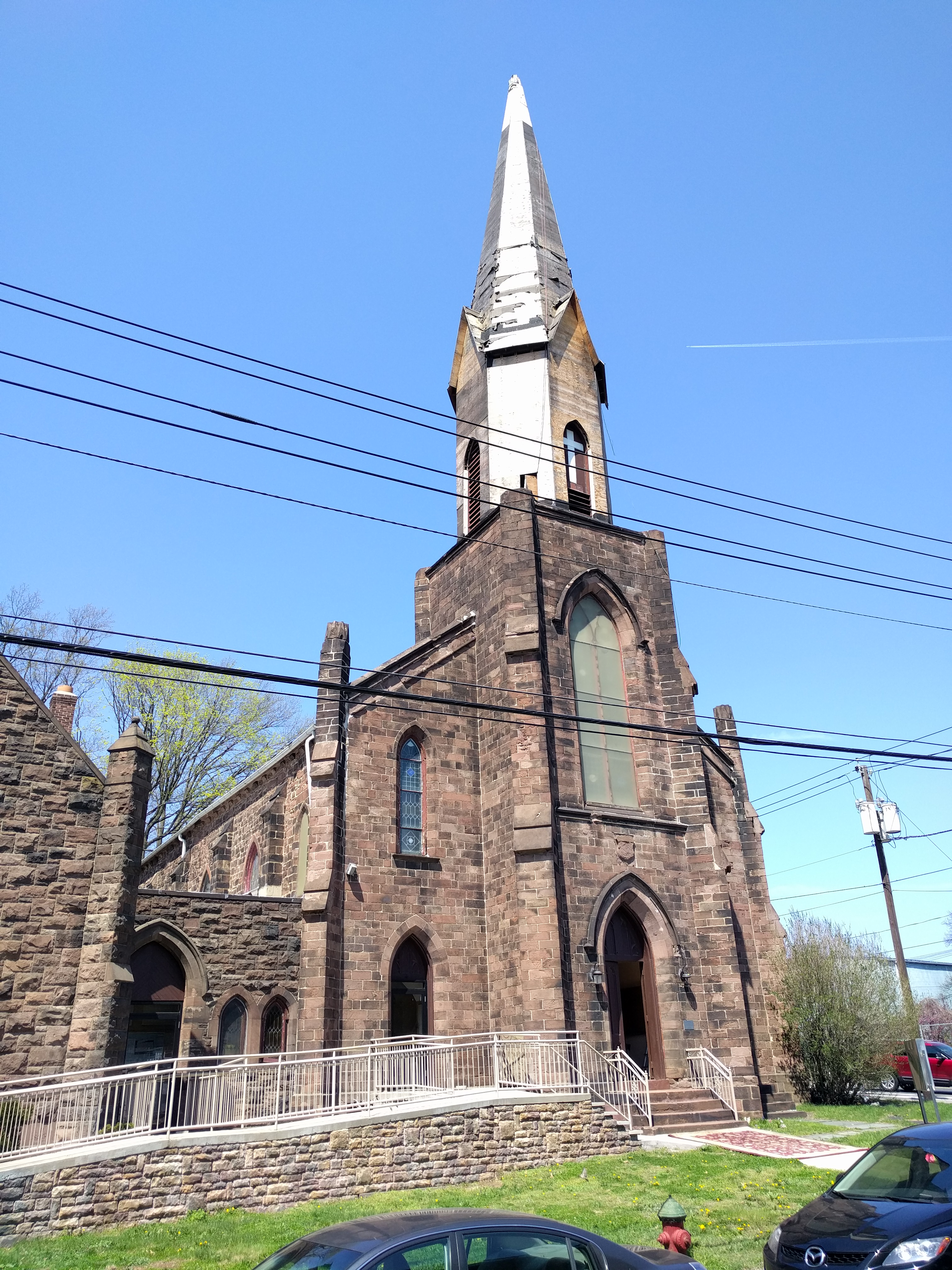 Looking northwest at church on a sunny midday Easter Sunday.